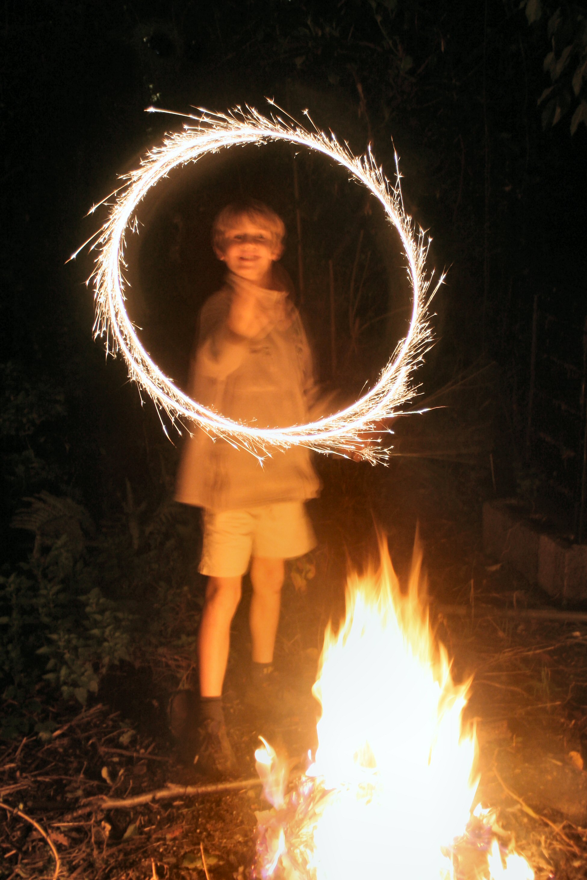 Guy Marshman (11) enjoying the traditional English bonfire night on November 5, 2005; picture by R Neil Marshman (c)